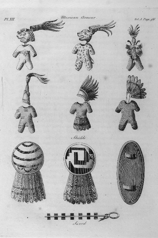 Aztec shields armours and sword